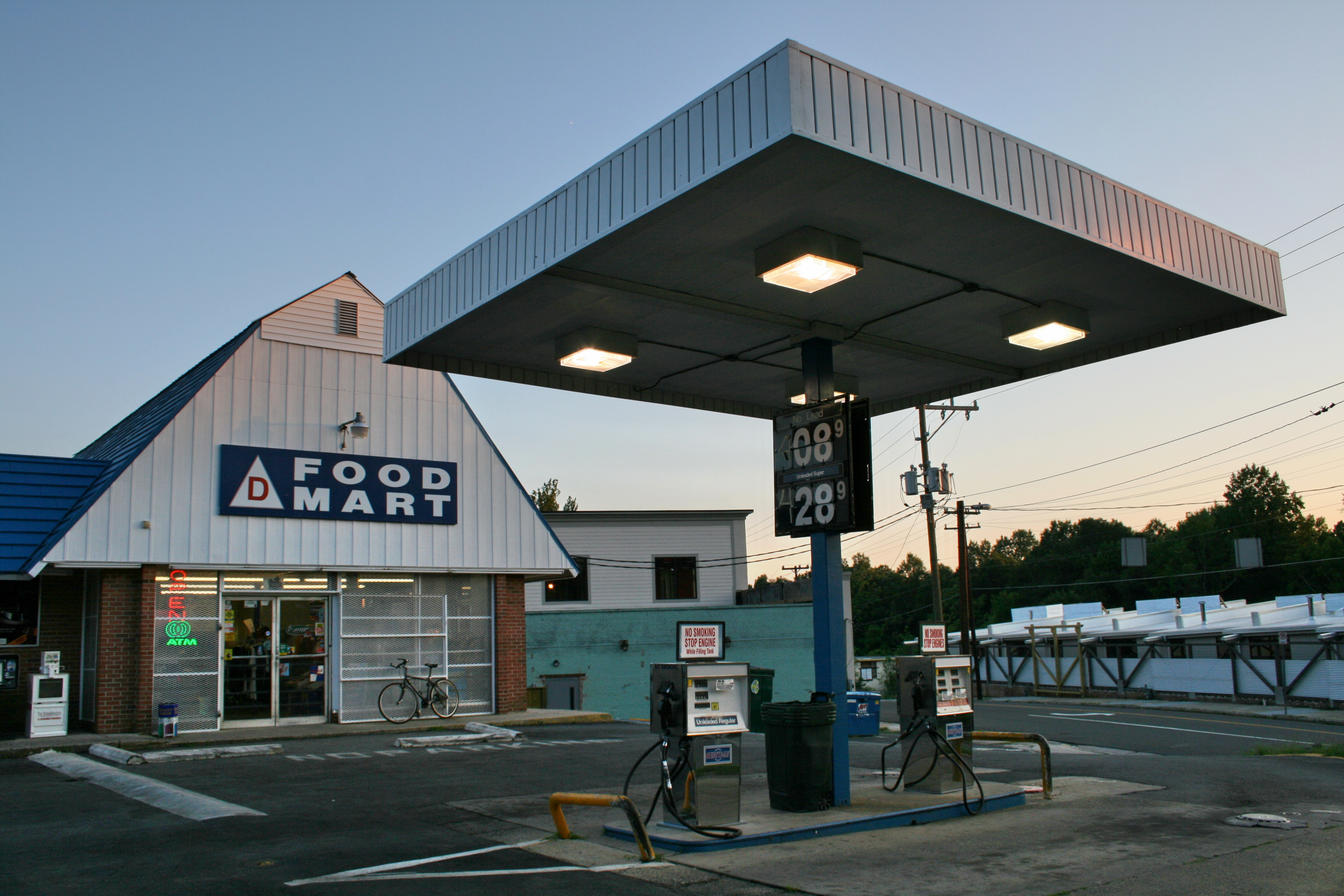 Triangle D Food Mart gas station and convenience store at 403 West Trinity Avenue in Durham, North Carolina.